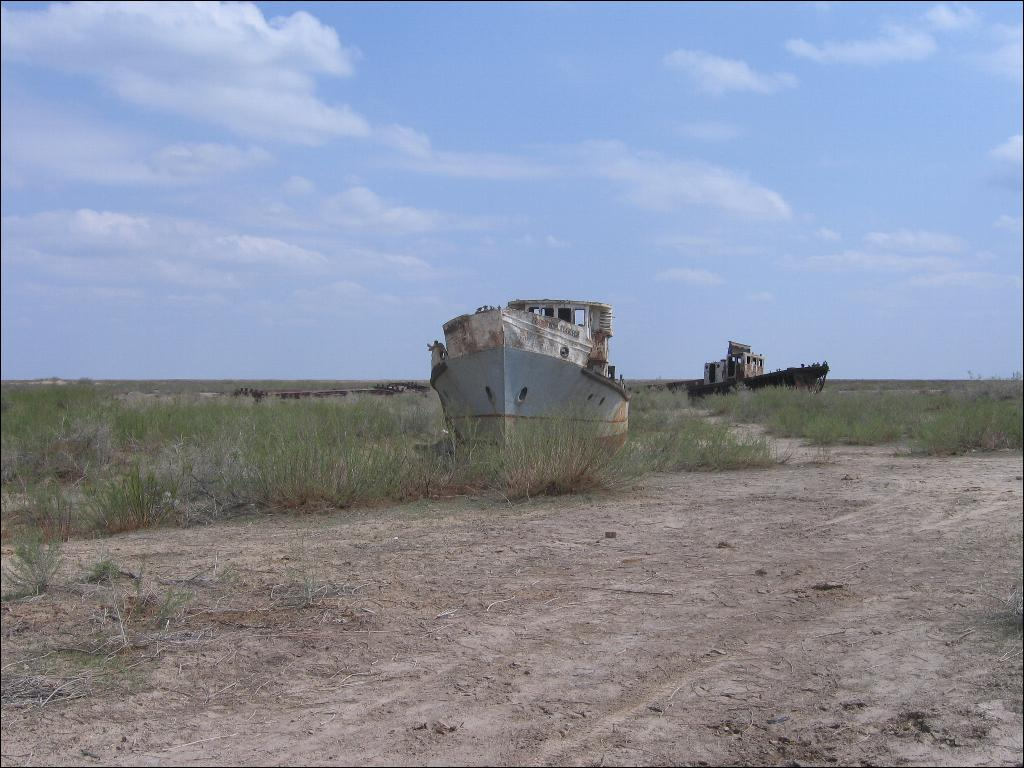 Deserted fishing boats in Moynaq, Uzbekistan. The Aral sea has dried up, and this once prosperous beach community is now about 150km away from the water.